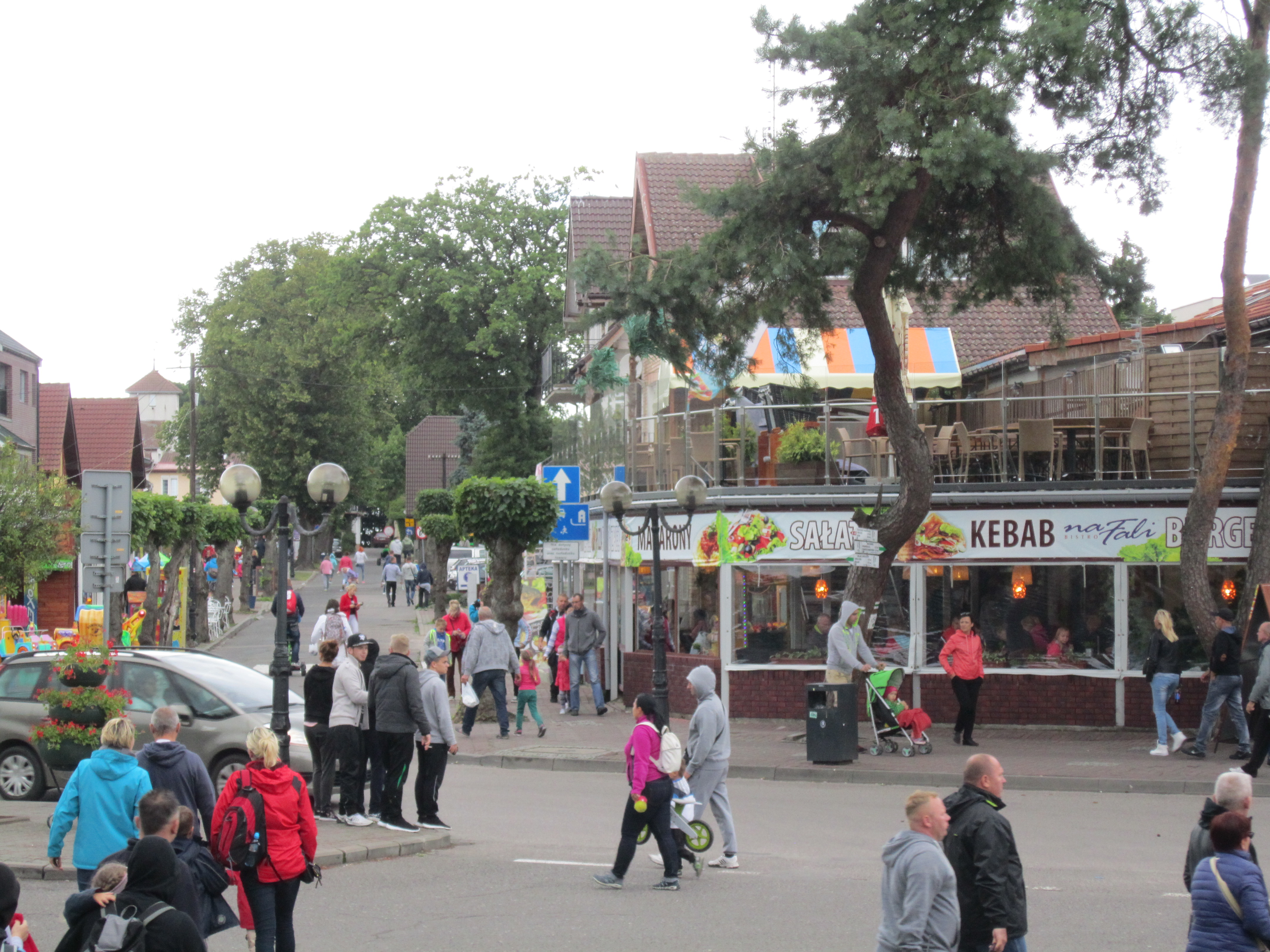 Tourism in the centre of Niechorze near the train station